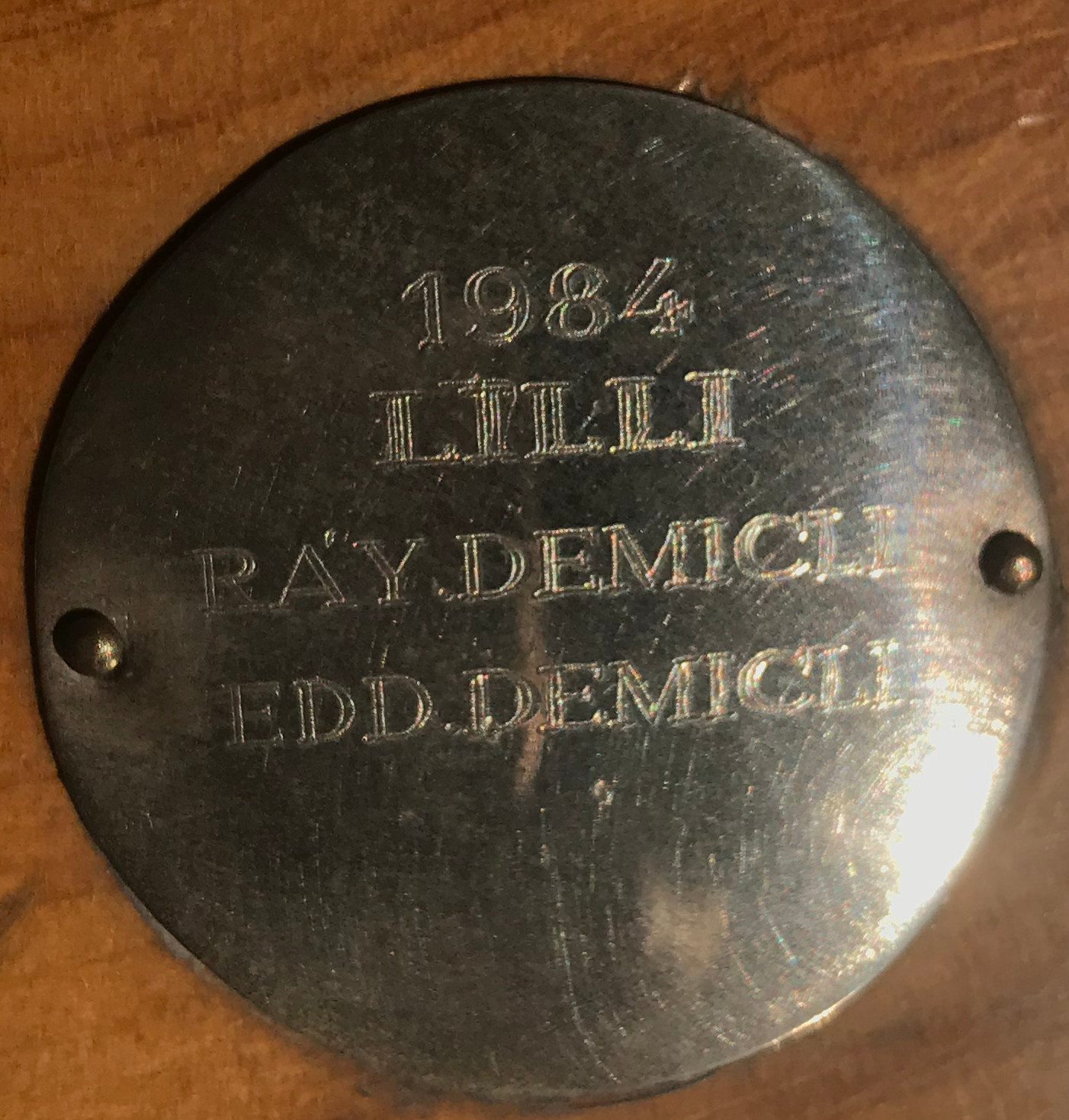 Patch on the Trophy